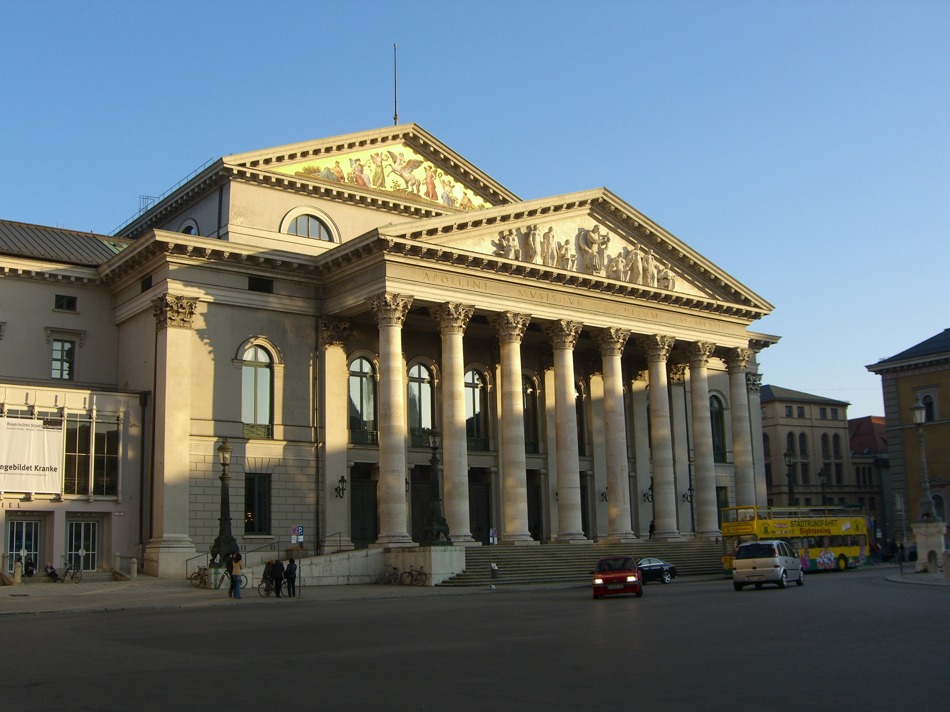 Nationaltheater, München